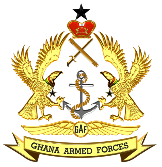 GAF (Ghana Armed Forces) logo